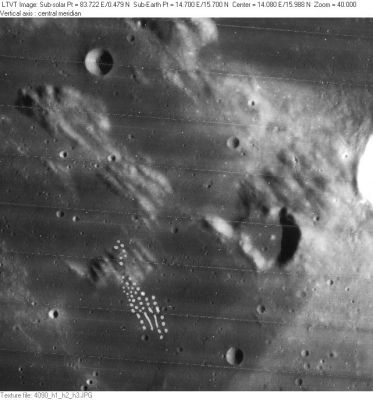 Daubrée is the shadowed crater to the right of center. The bright object interrupting the right margin is the sunlit west rim of Menelaus.